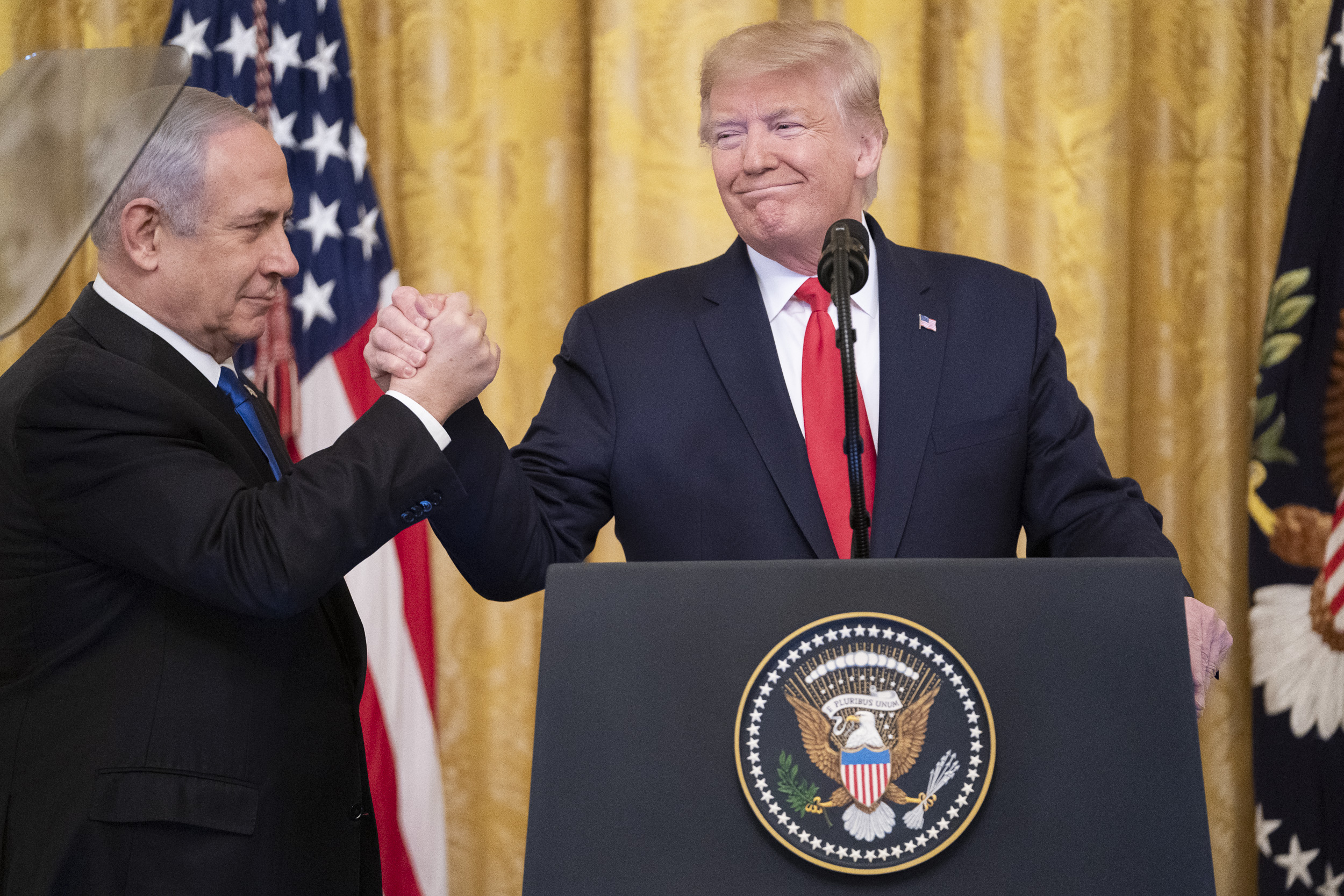 President Donald J. Trump delivers remarks with Israeli Prime Minister Benjamin Netanyahu Tuesday, Jan. 28, 2020, in the East Room of the White House to unveil details of the Trump administration’s Middle East Peace Plan. (Official White House Photo by Shealah Craighead)